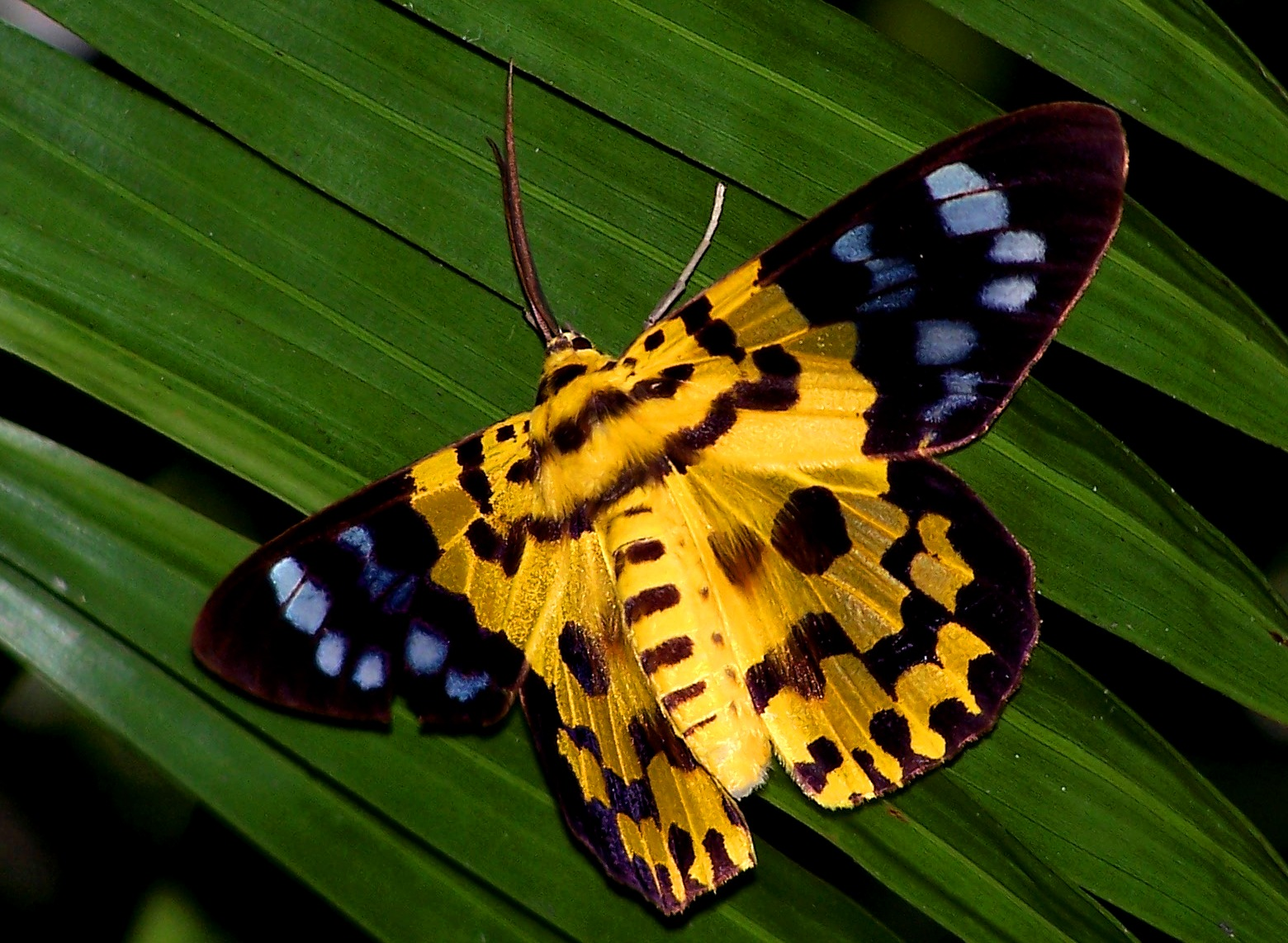 Dysphania militaris. Not a large one (3-5cm) but can be seen far away owning to its eye catching color.